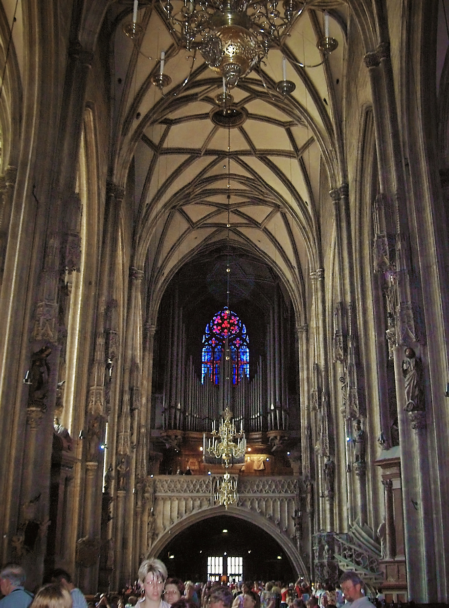 Nave (view towards the organ) in the Stephansdom in Vienna, Austria